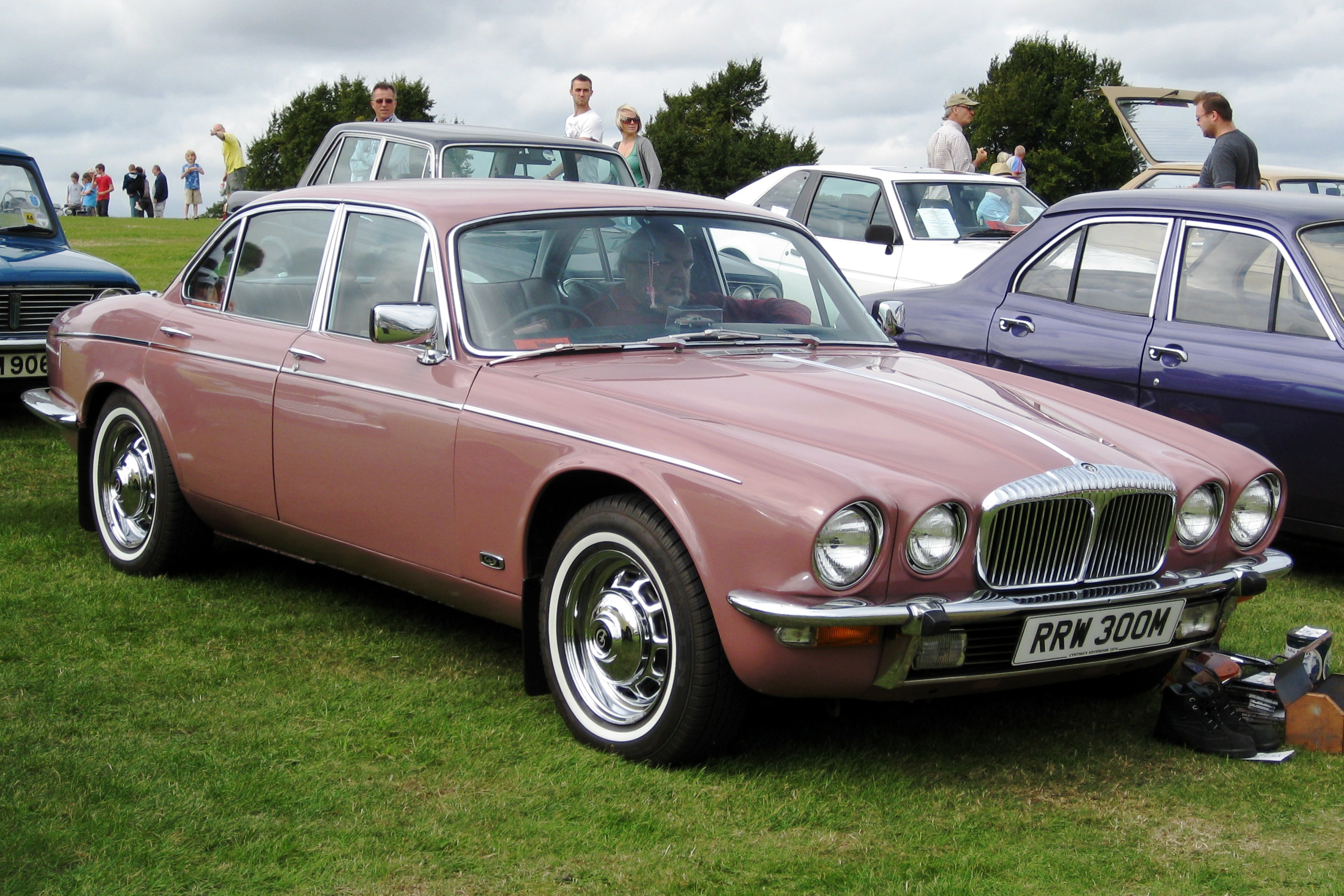 Daimler Sovereign version of Jaguar XJ6 shortly after they raised the front bumper at the end of 1973.